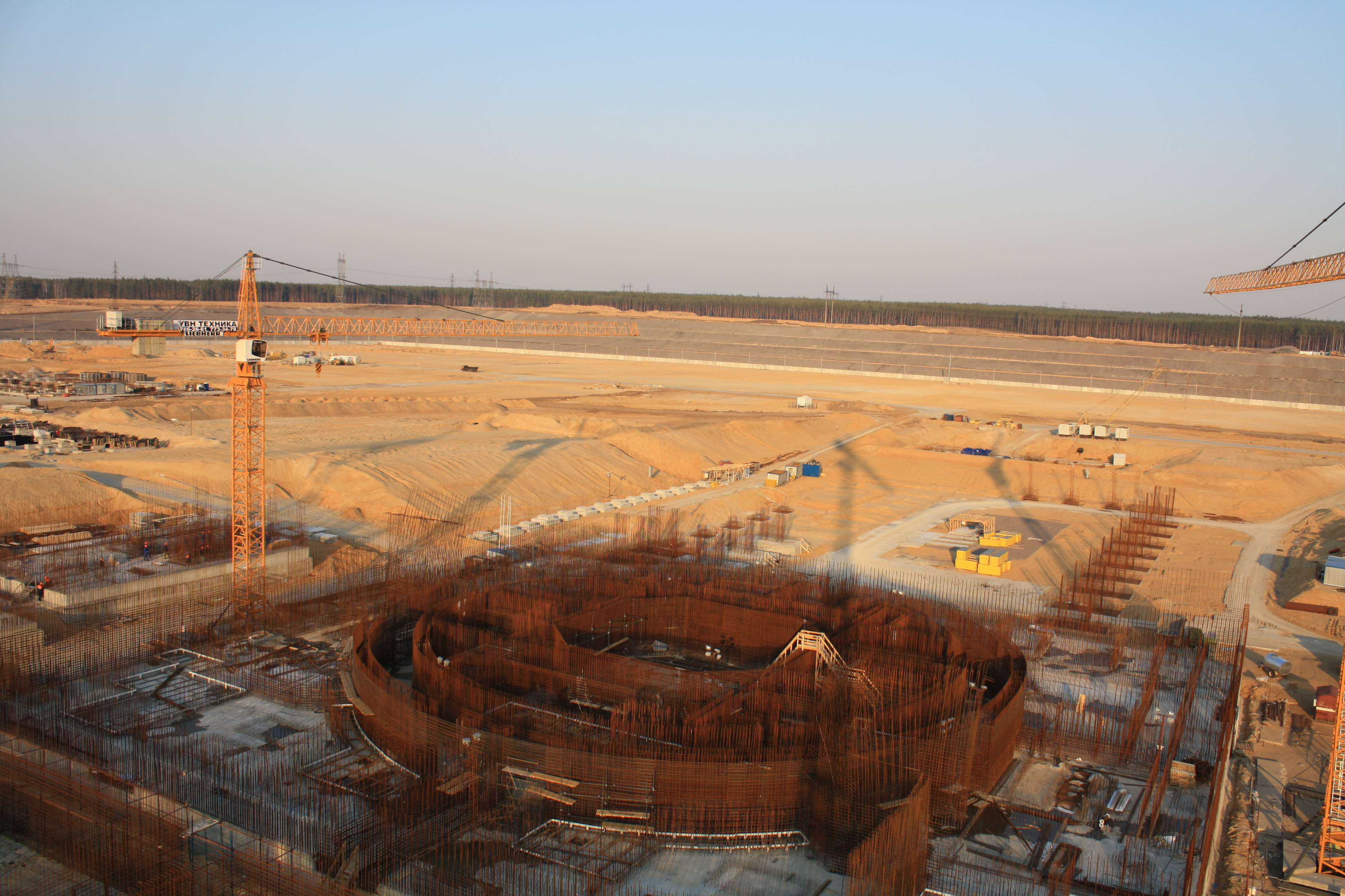 Steel reinforcement of the first unit at the Novovoronezh Nuclear Power Plant II